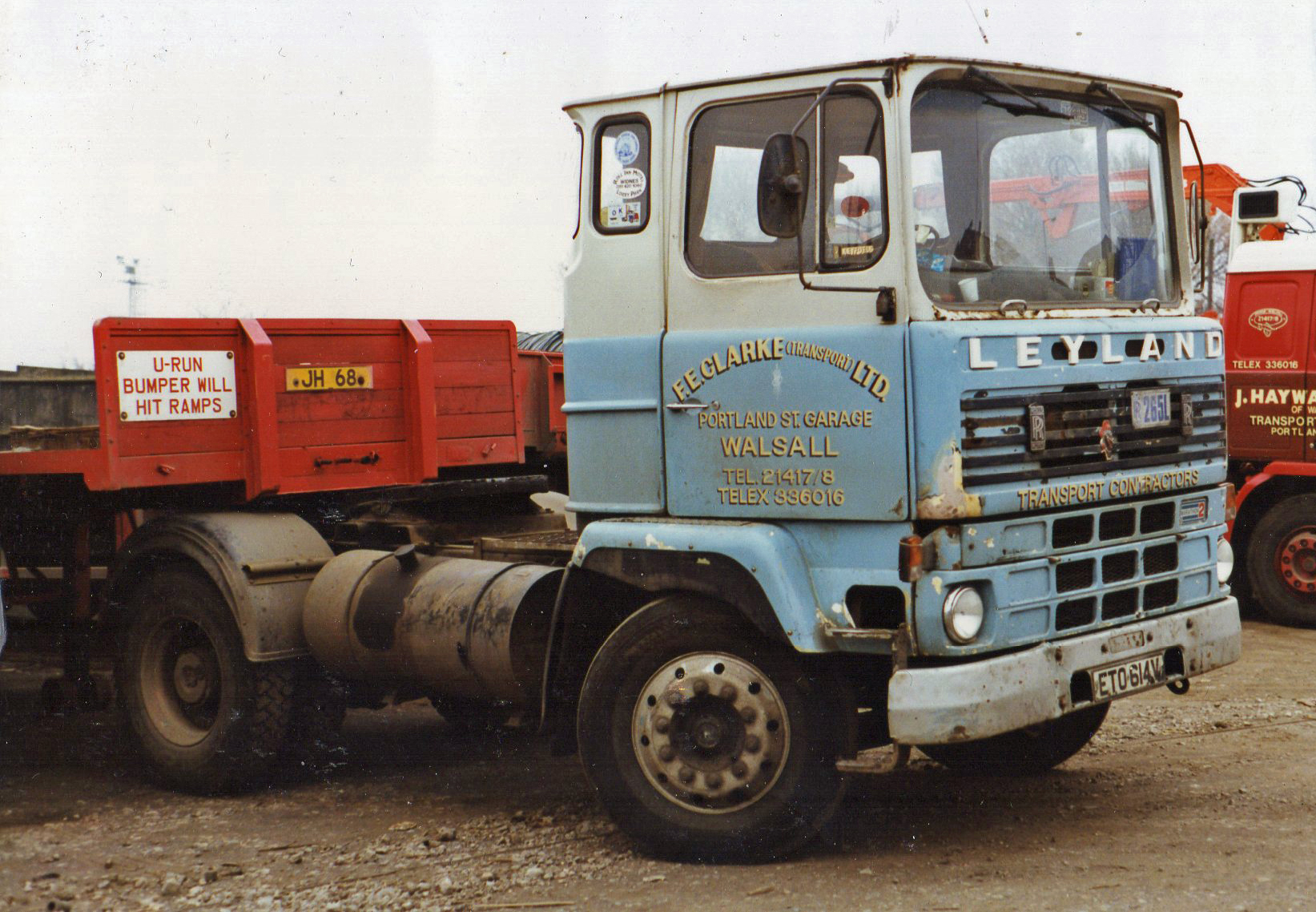 1979 Leyland Marathon 2 - the last year for this shortlived version. Rolls-Royce diesel engine fitted.